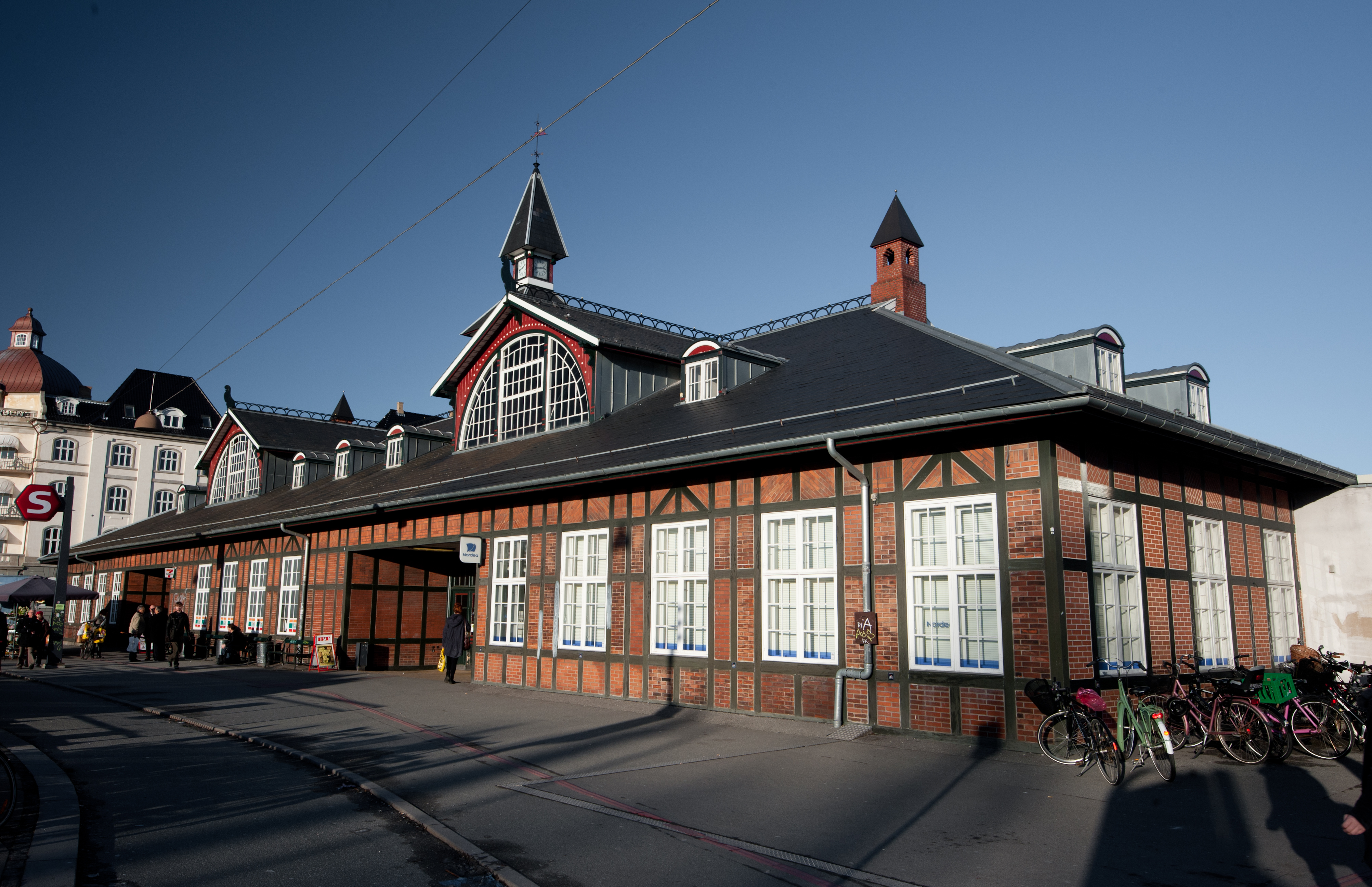 The trainstation Østerport Station (lit.: Eastern Gate Station) in Copenhagen, Denmark.